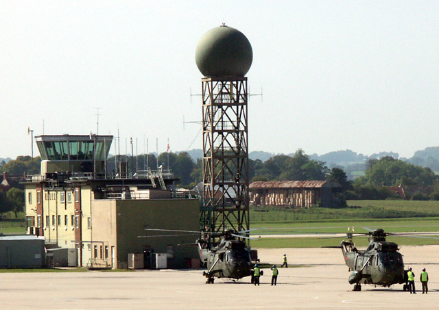 Seen from the FAA Museum. Two Sea King helicopters stand ready to take off. I presume the large sphere contains a radar scanner.